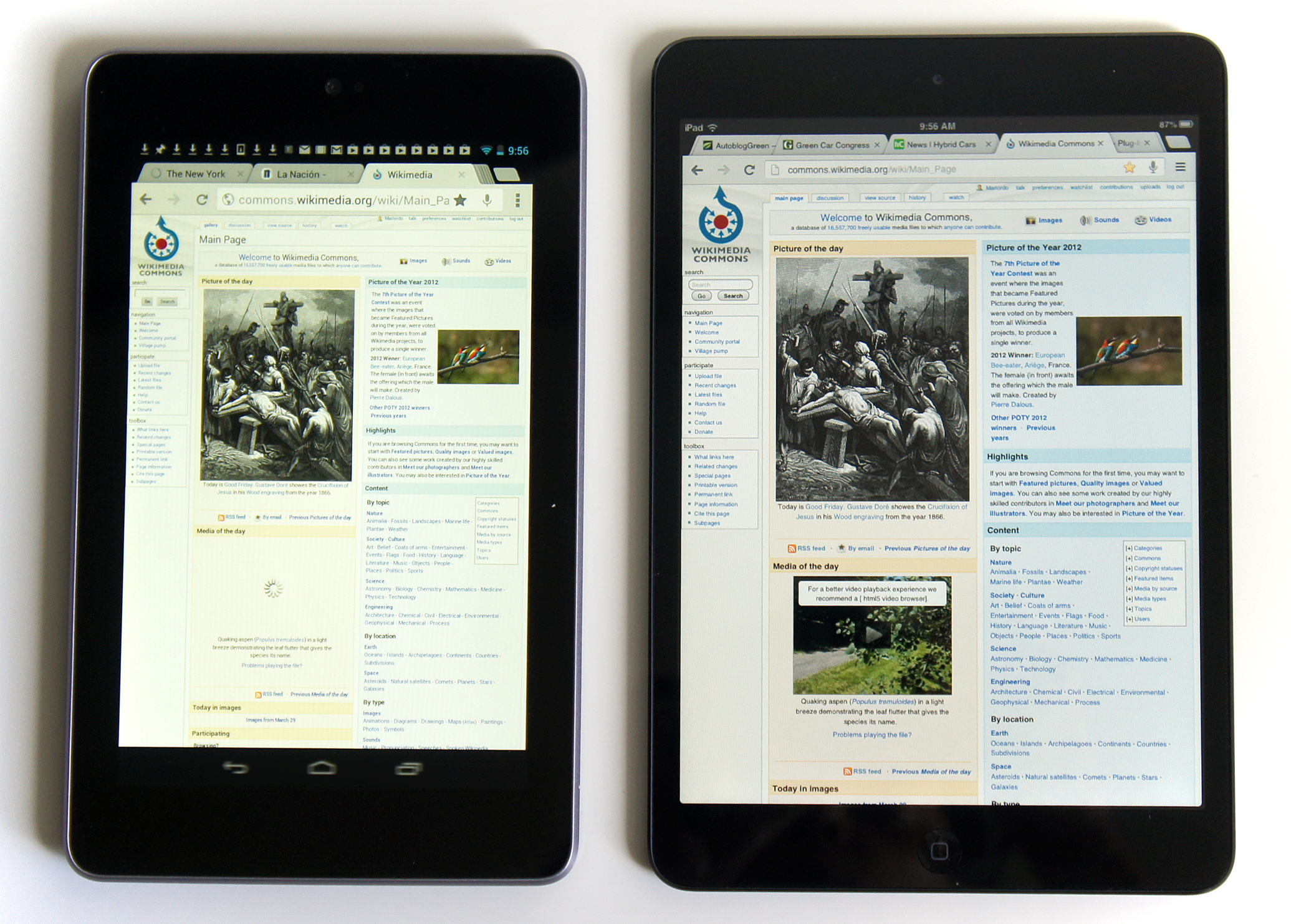 iPad Mini (right) compared with Google Nexus 7 (left) both showing Wikimedia Commons main page on 2013-03-29.